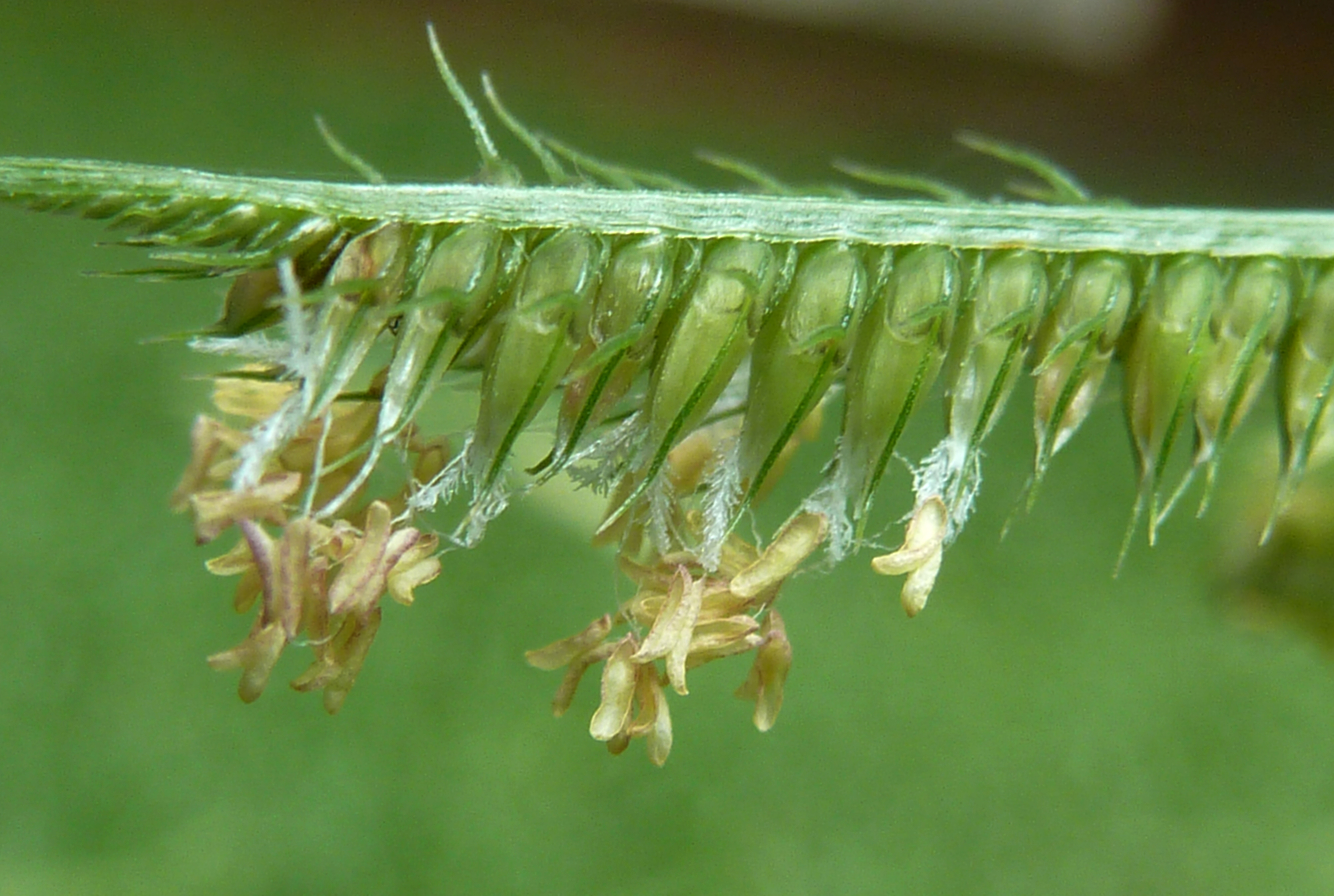 Double row of sessile florets on a spikelet of Common Crowfoot on a lawn in suburban Pretoria. The feathery stigmas and boat-shaped and cream-coloured anthers are visible. The glumes have sideways awns, in addition to the downward-pointing awns of the palea and lemma.